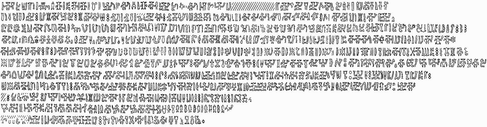 Barthel's tracing of rongorongo tablet P, recto